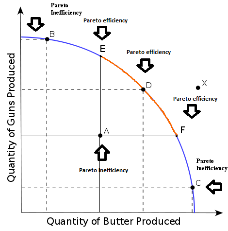 A diagram showing the production possibilities frontier (PPF) curve for producing "guns" and "butter". Point "A" lies below the curve, denoting underutilized production capacity. Points "B", "C", "D", "E" and "F" lie on the curve, The arc "EF", joining the points "E" and "F" denote Pareto efficiency, augmenting production of one without reducing the production of the other. Point "X" lies outside the curve, representing an impossible output for existing capital and/or technology.